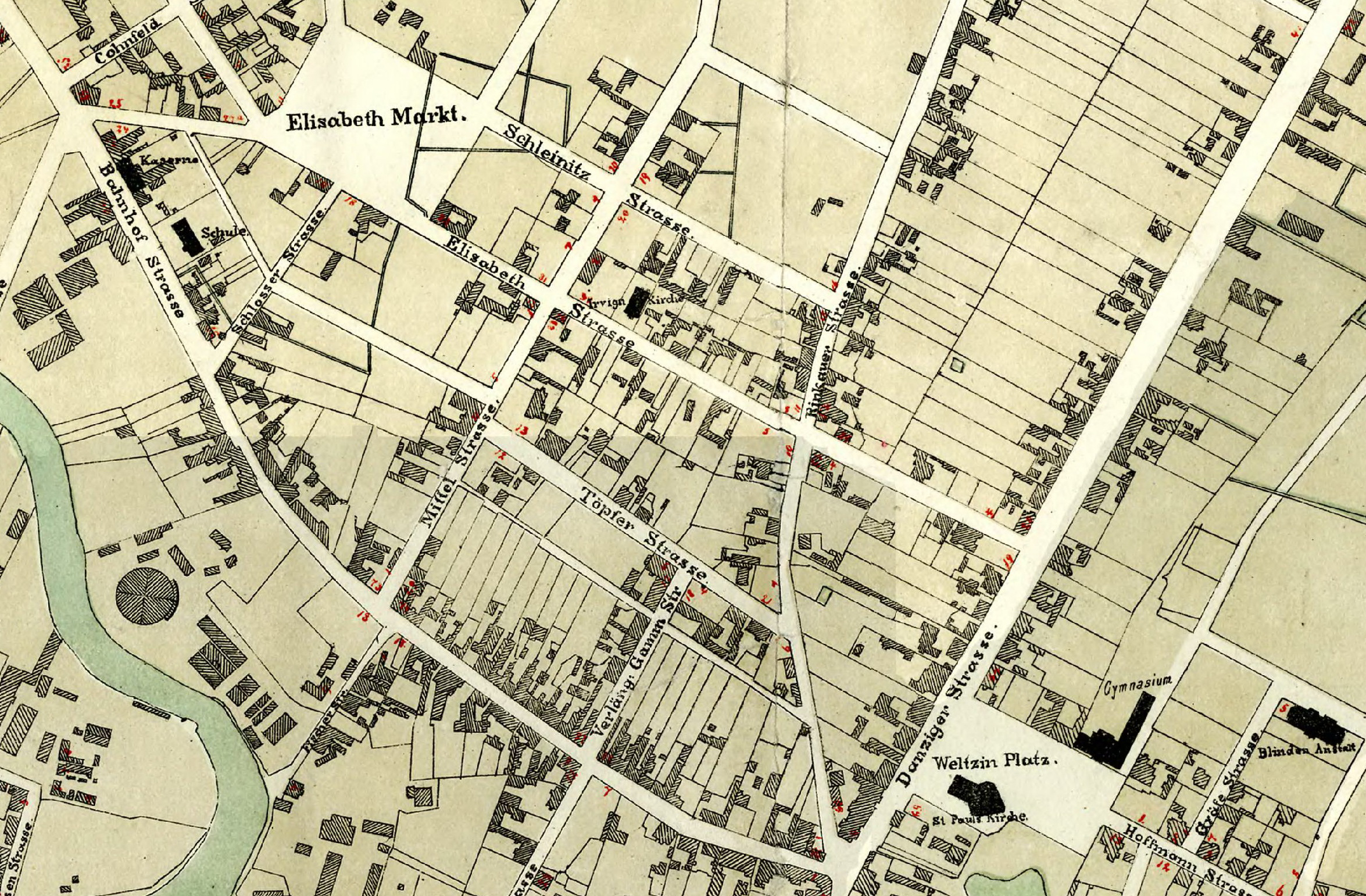 1876 map